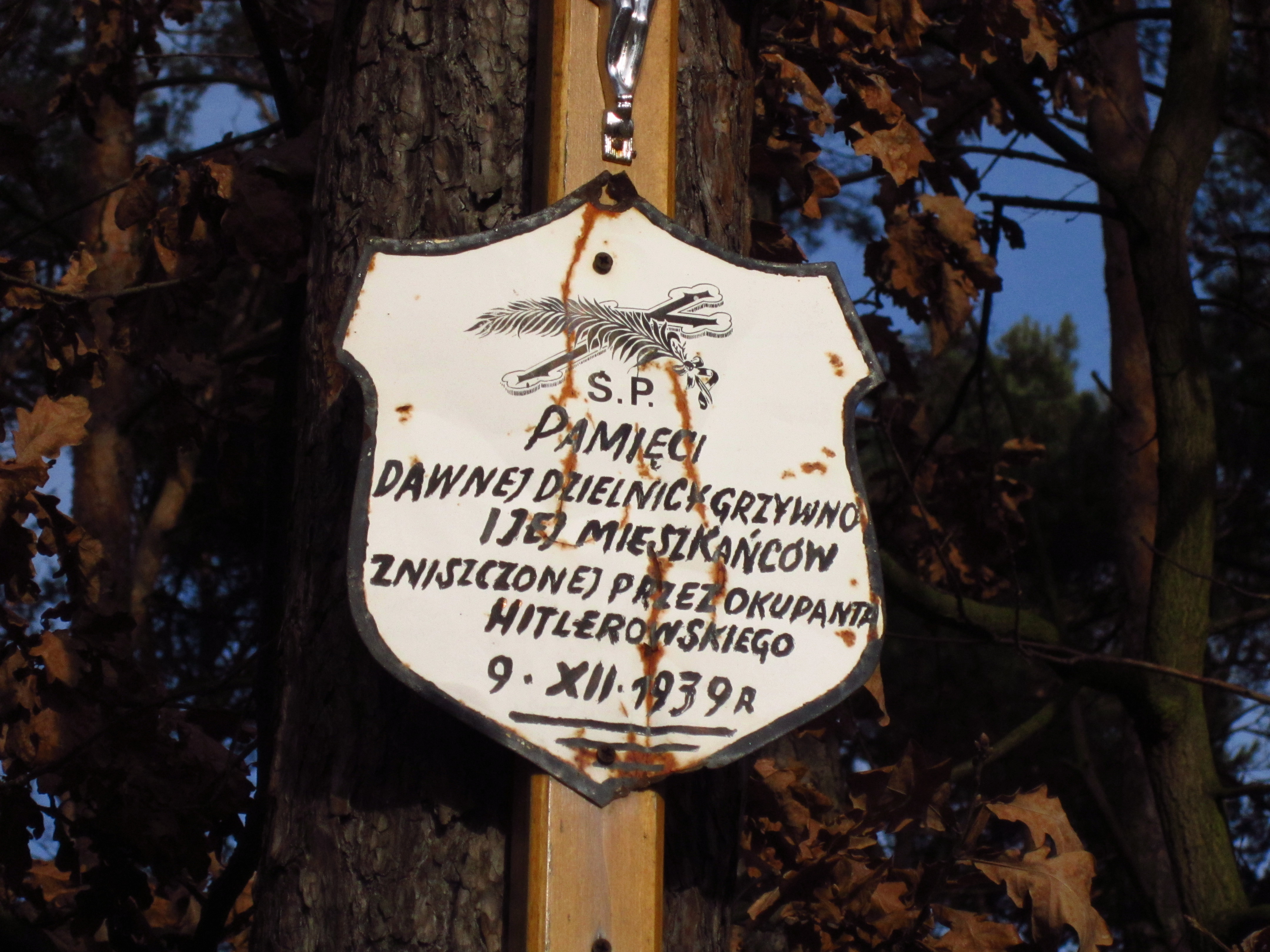 Plaque of former district Grzywno in Włocławek, hanged on cross on the tree.